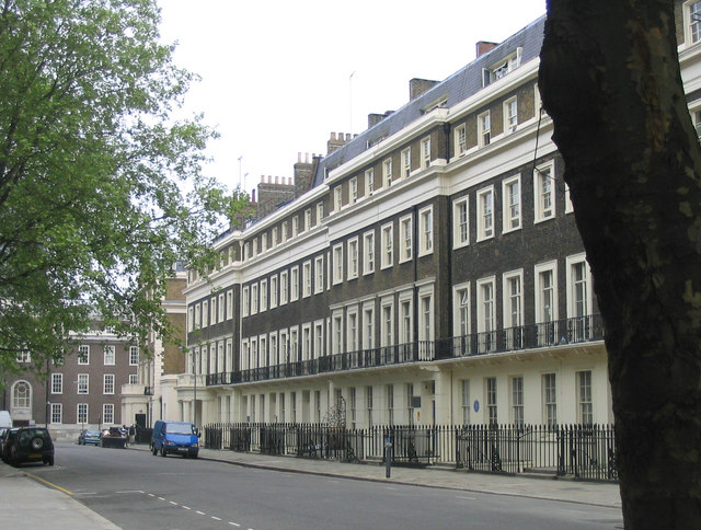 Taviton Street, Bloomsbury. A quiet residential street south of the busy Euston Road. These terraced houses were built in c.1825 by Thomas Cubitt